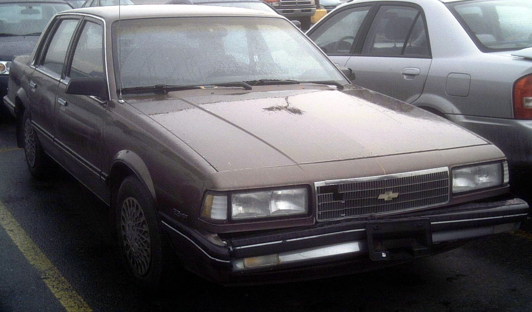 1987-1989 Chevrolet Celebrity photographed in Quebec, Canada.